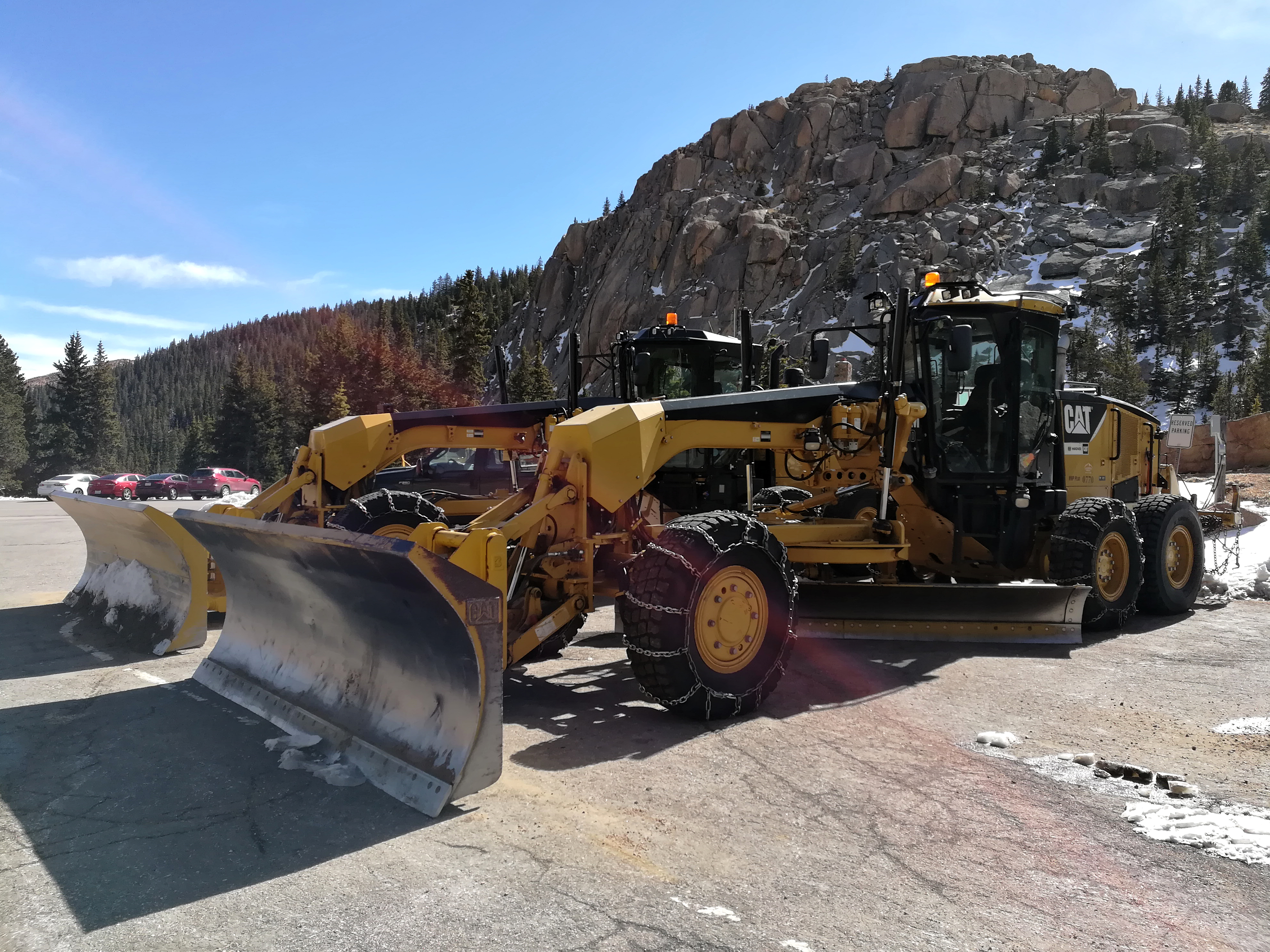 Snow removing grader